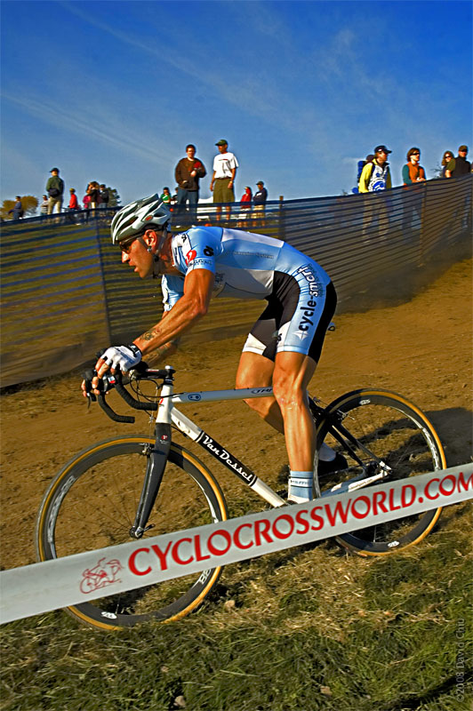 Adam Myerson (Cycle-Smart) racing at Stage Fort Park in Gloucester, MA at the 2008 edition of the Grand Prix of Gloucester professional men's cyclo-cross race.